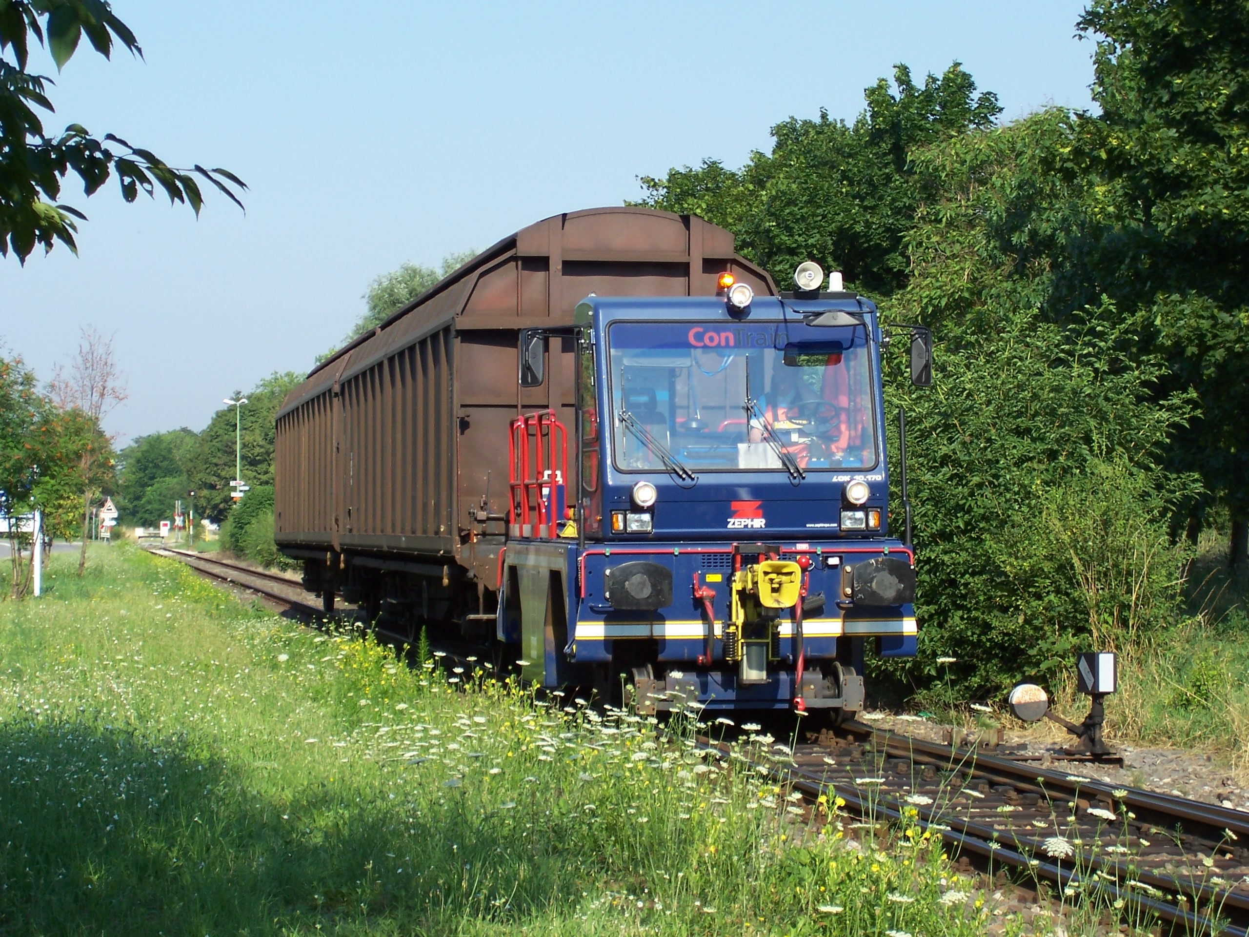 A cargo train pulled by a ZEPHIR LOK 10.170 in Viernheim, Germany.